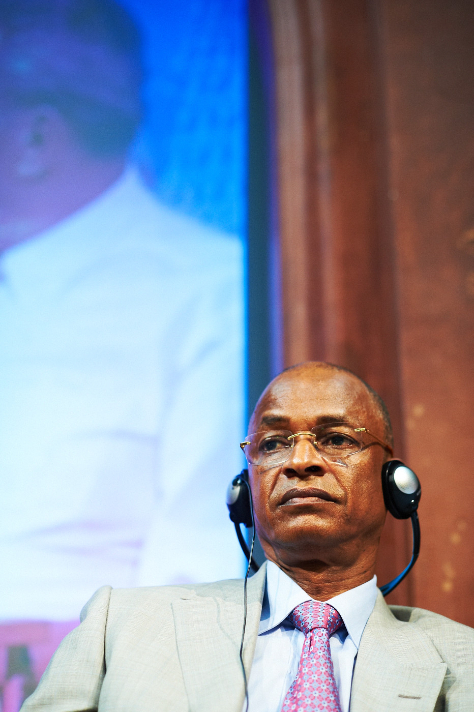 Cellou Dalein Diallo, Former Prime Minister of Guinea